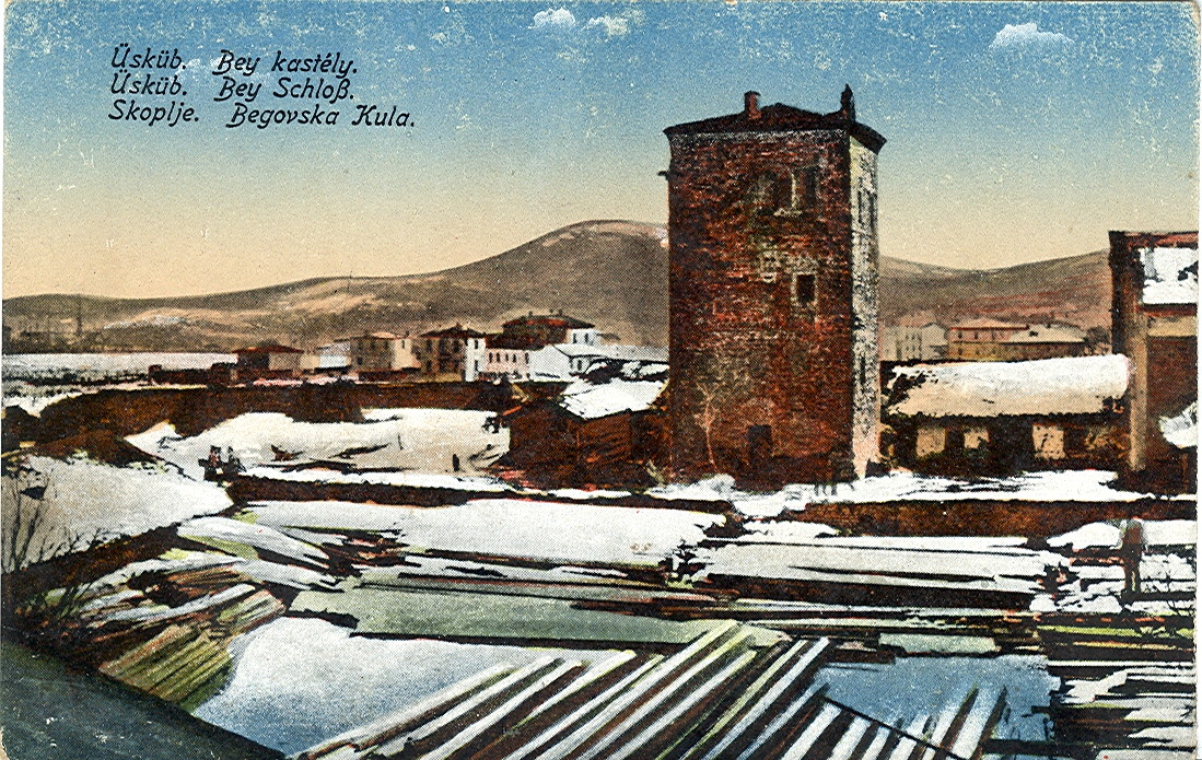 Postcard, undated ( ca.1917 ). Title: "Castle of the Beg of Skopje"